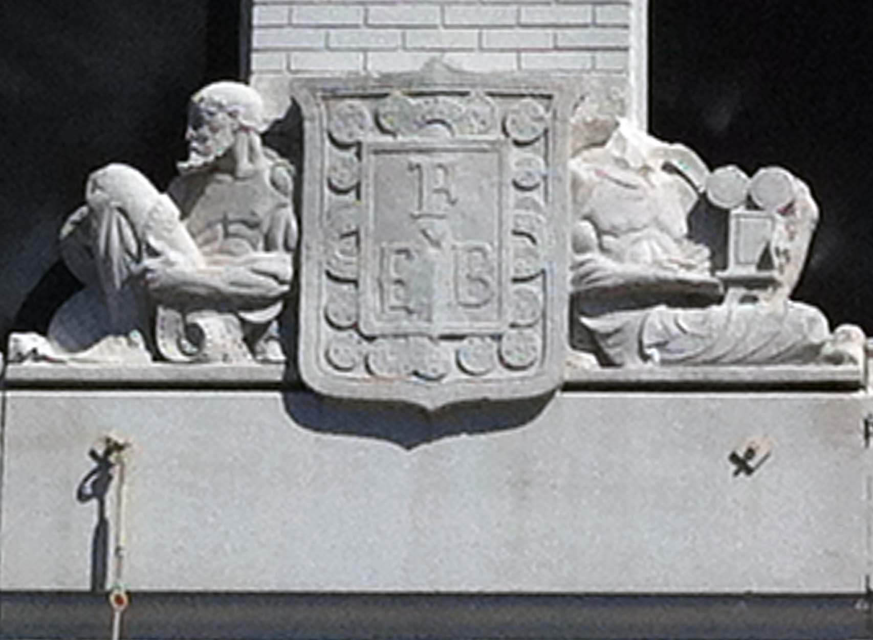 This is an image of a detail on the front of the Film Exchange Building in Detroit.